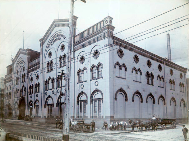 Brewery of the Moerlein Brewing Co., Cincinnati, Ohio. Located in the neighborhood of Over-the-Rhine.